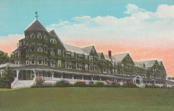 The Belgrade Hotel, Belgrade Lakes, ME; from a c. 1920 postcard. It was designed by noted Portland architect John Calvin Stevens.